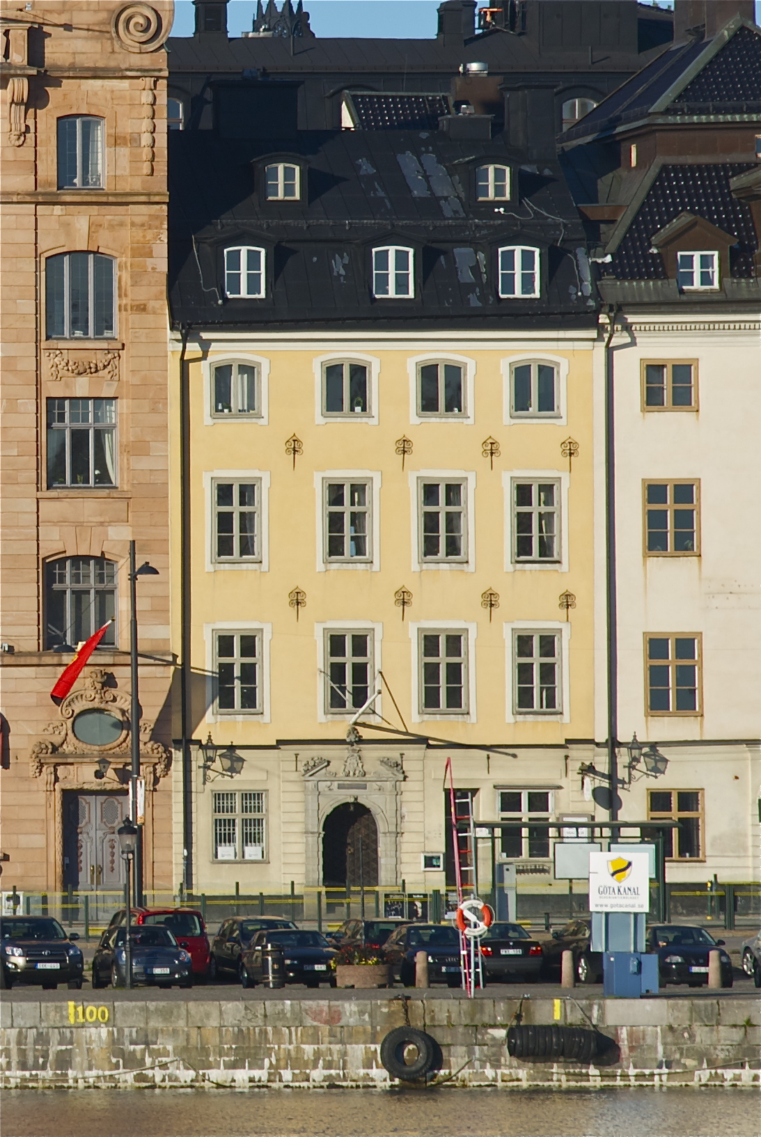 Skeppsbron 6, september 2011.